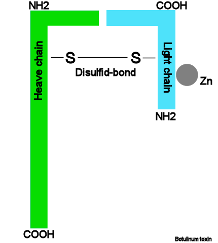 A model of botulinum toxin showing the disulfid bond and the heavy+light chain. COOH and NH2 on it as well so the viewer can see N and C terminus.